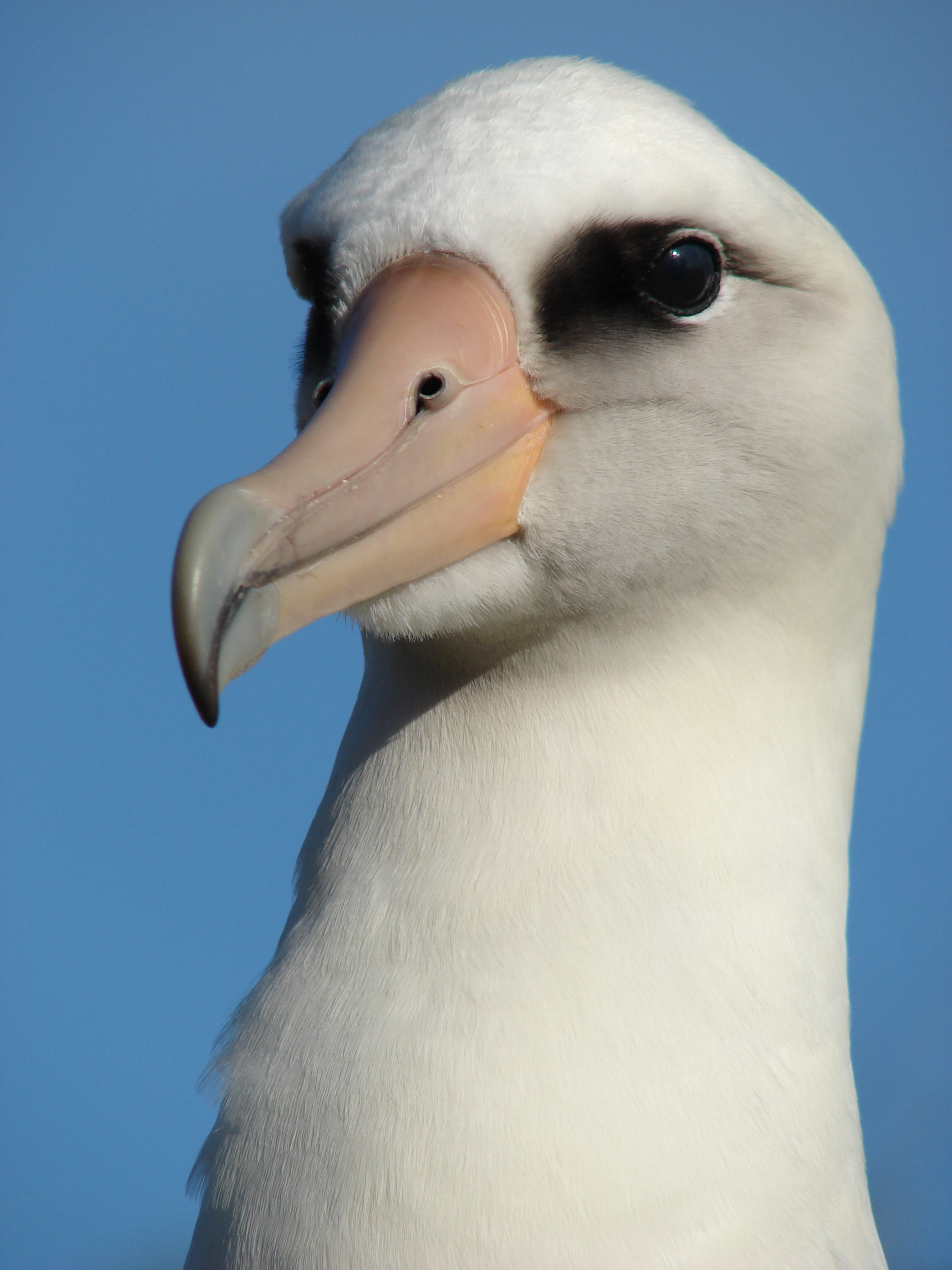 Laysan Albatross. Location: Midway Atoll, Charlie barracks Sand Island